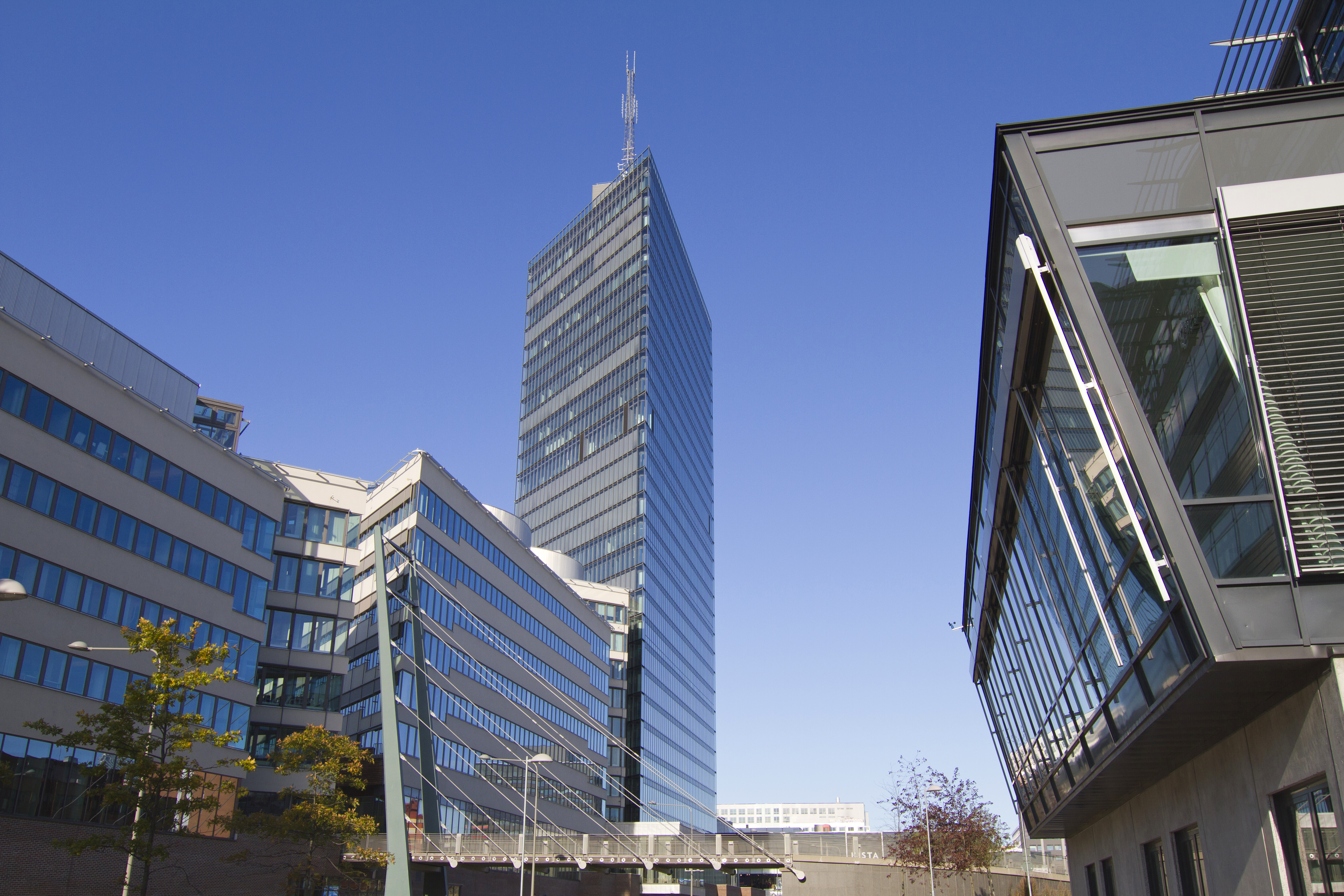 Kista science Tower in Kista north of Stockholm City. This is the tallest office building in Scandinavia